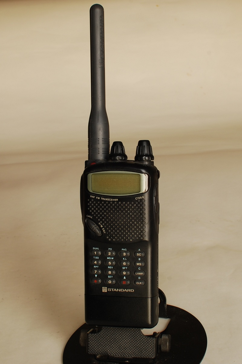 Standard C156A amateur radio VHF/FM tranceiver